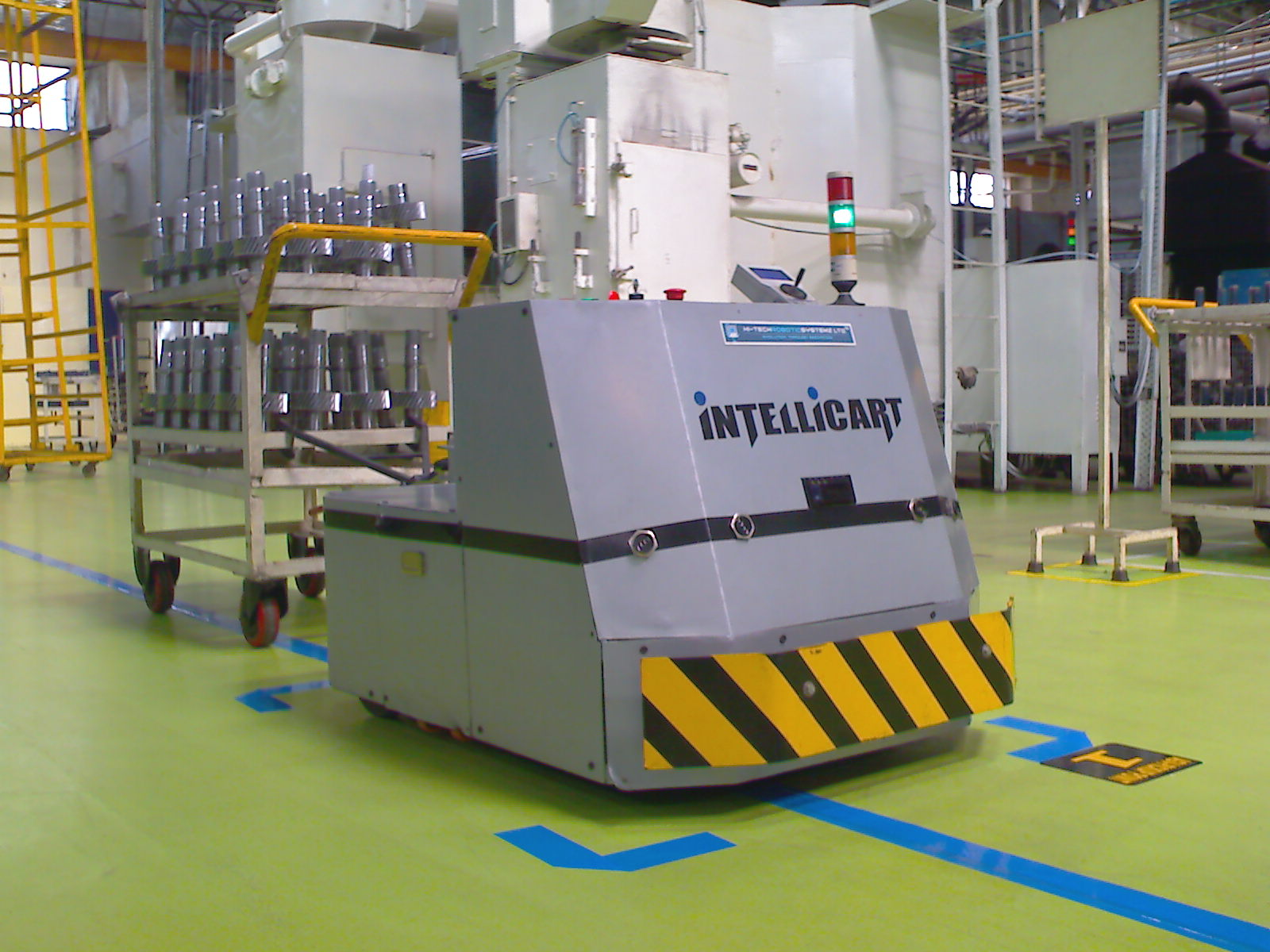 The Tow Type AGV.